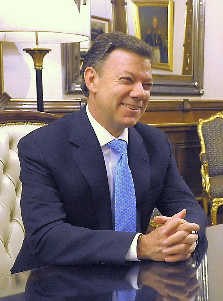 Argentine President Cristina Fernandez de Kirchner received Colombia President Elect Juan Manuel Santos at Casa Rosada, Buenos Aires